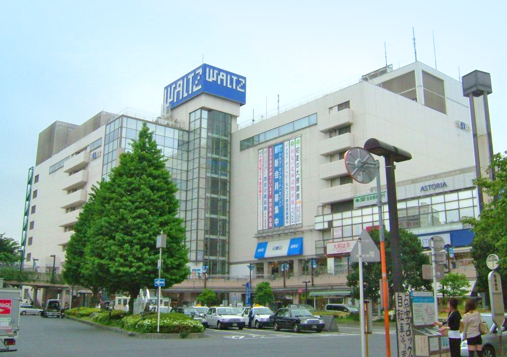 Seibu department store in Tokorozawa. (Tokorozawa station west entrance)